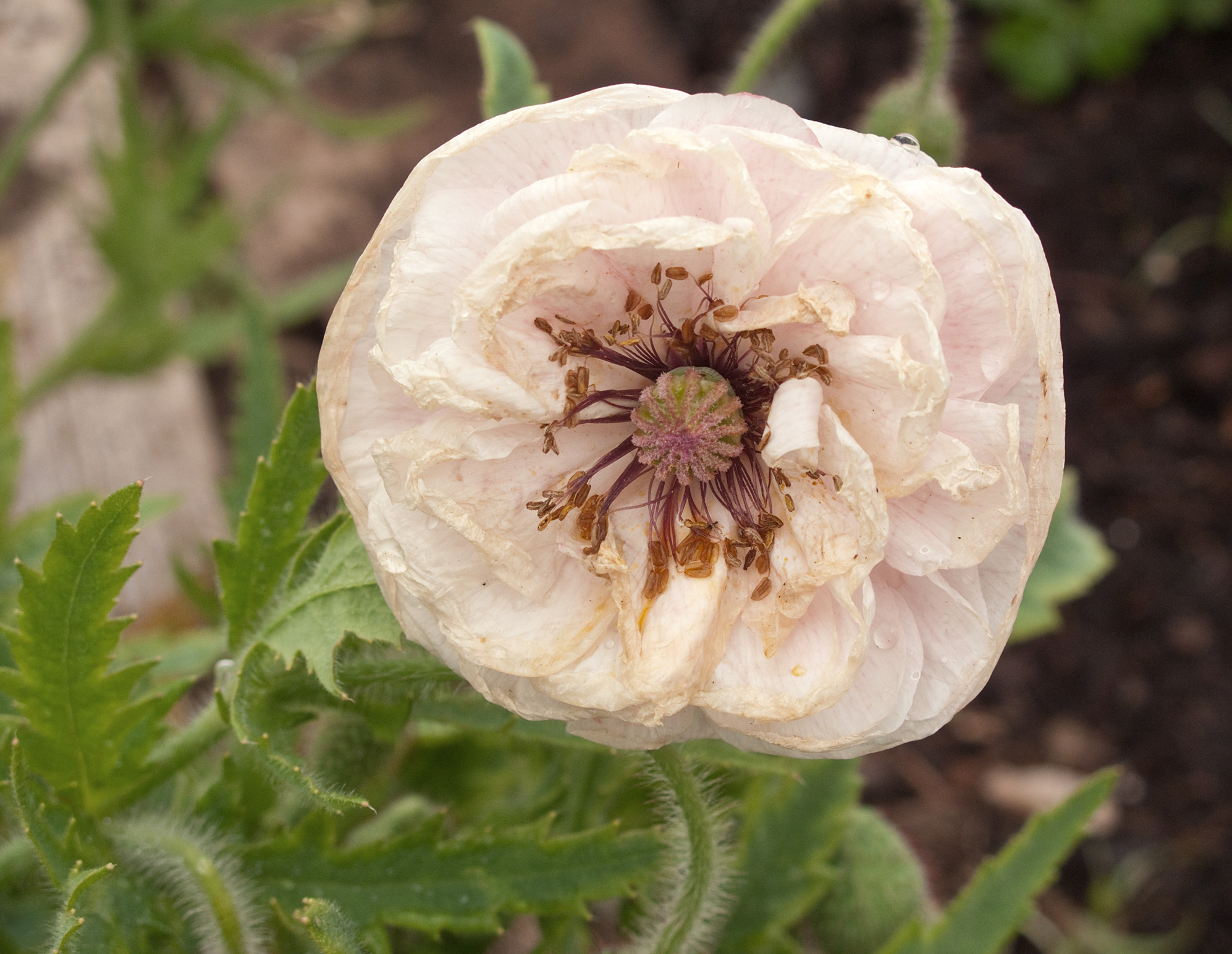 Shirley Poppy, a cultivated variety of Papaver rhoes.